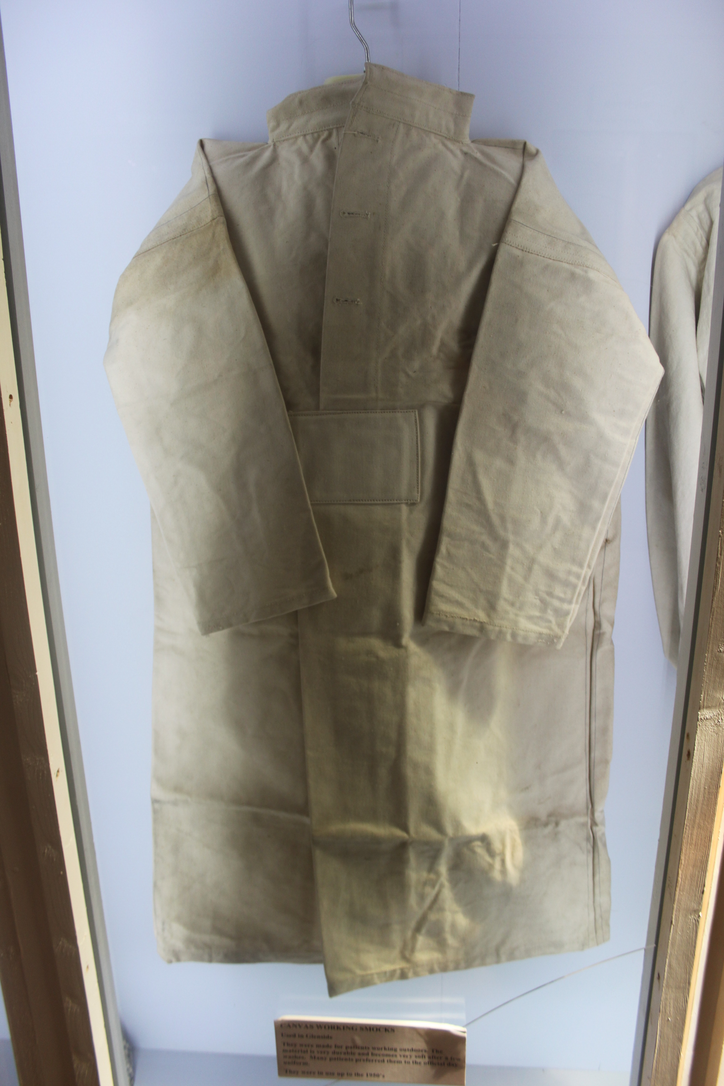 Straight Jacket on display at Glenside Museum